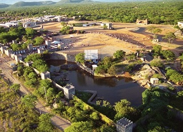 Foto aérea do teatro de Nova Jerusalém